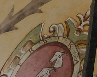 Zerwikaptur coat of arms in Baranow-Sandomierski castle. Detail of Image:Baranów Sandomierski - castle 03.JPG full resolution, by User:Piotrus and tagged with the same “self2.GFDL.cc-by-sa-2.5,2.0,1.0” license.